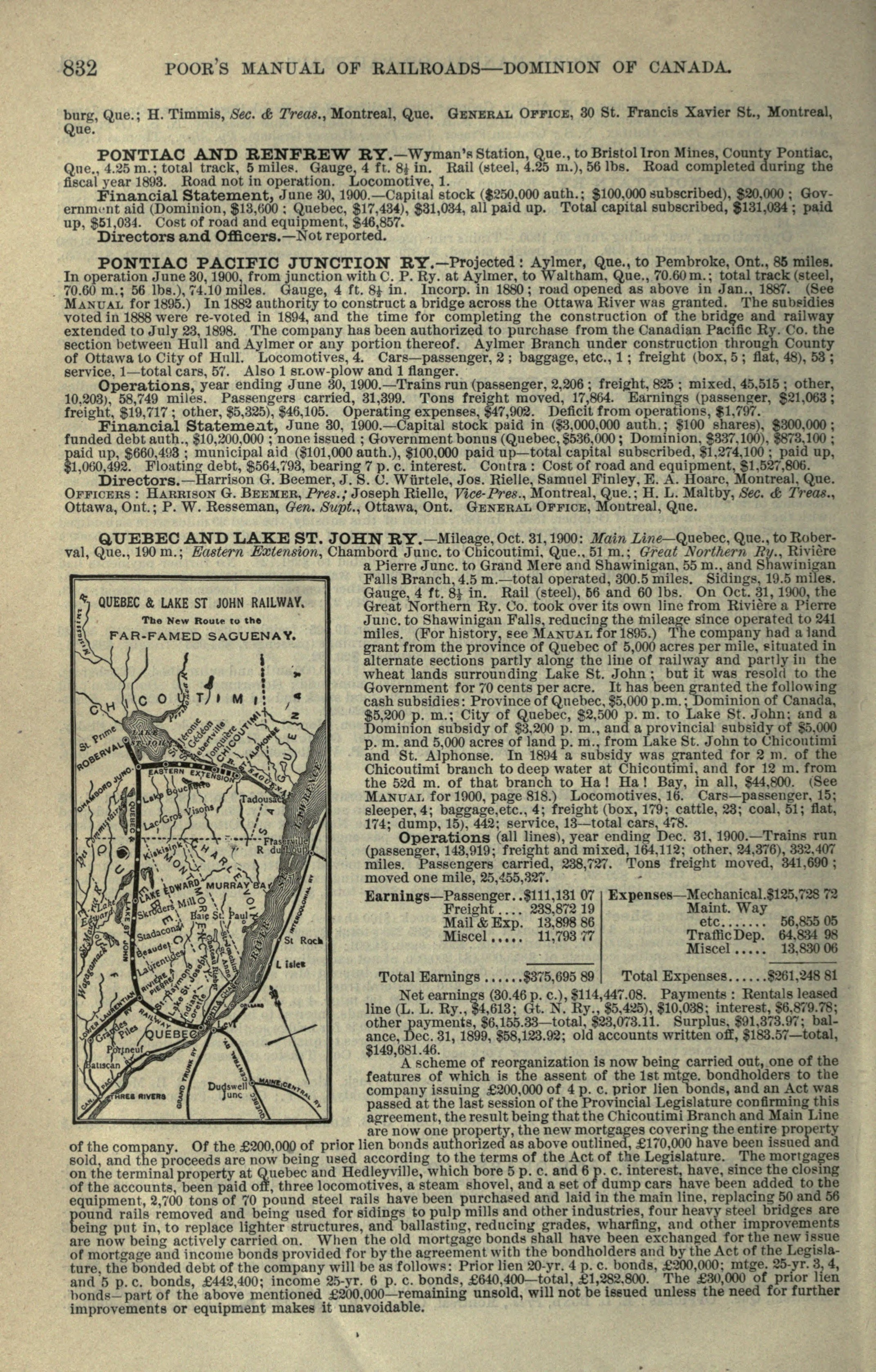 Quebec and Lake St. John Railway